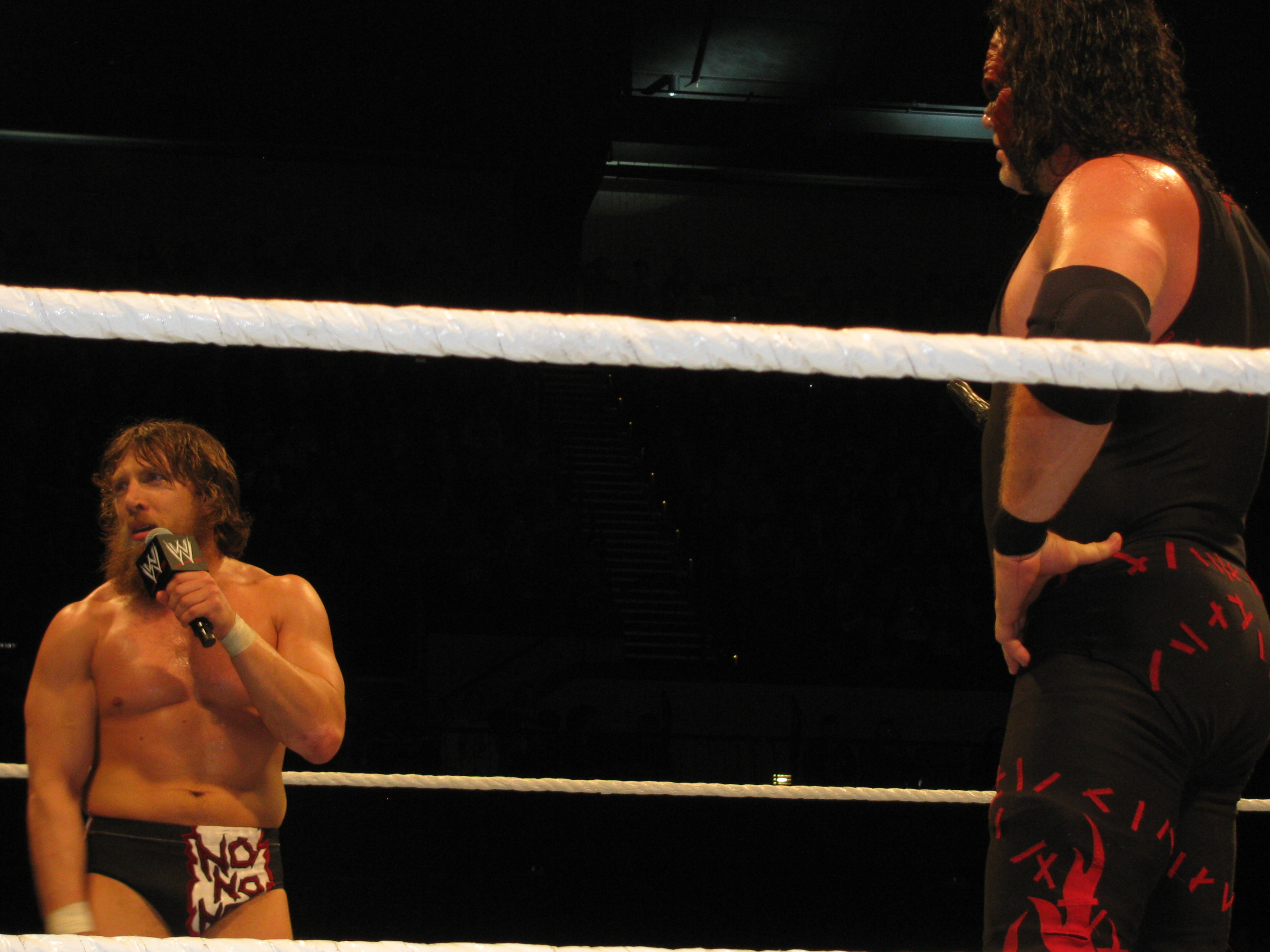 Daniel Bryan & Kane @ Adelaide, South Australia WWE house show on the 29th of July '13